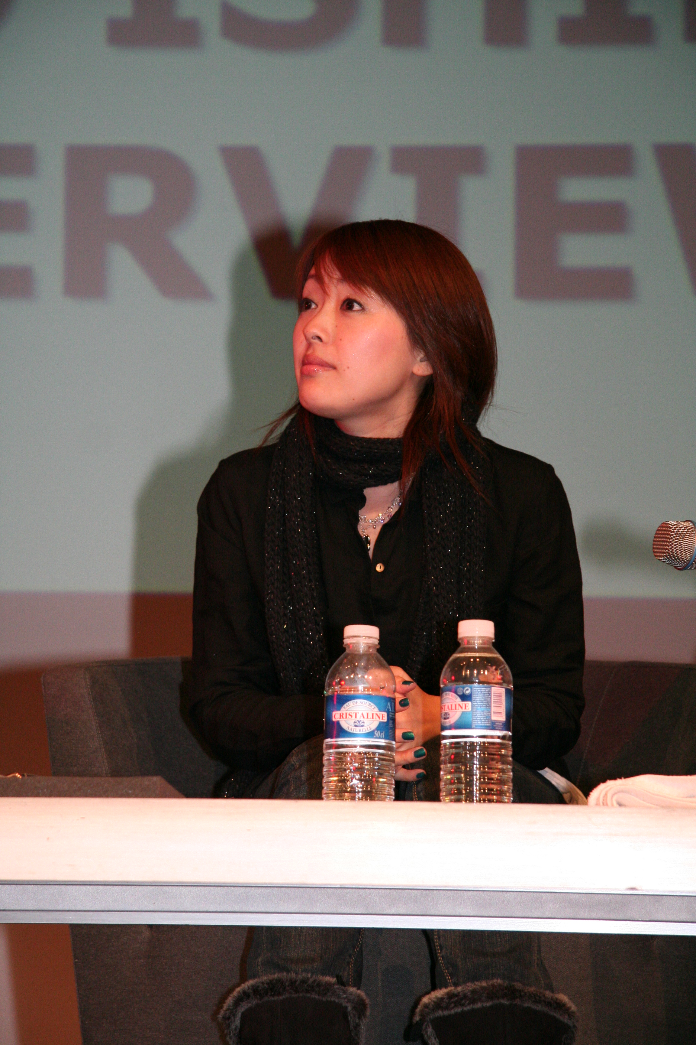 Conference with Yoko Ishida at Manga Expo 2 (Paris, France).